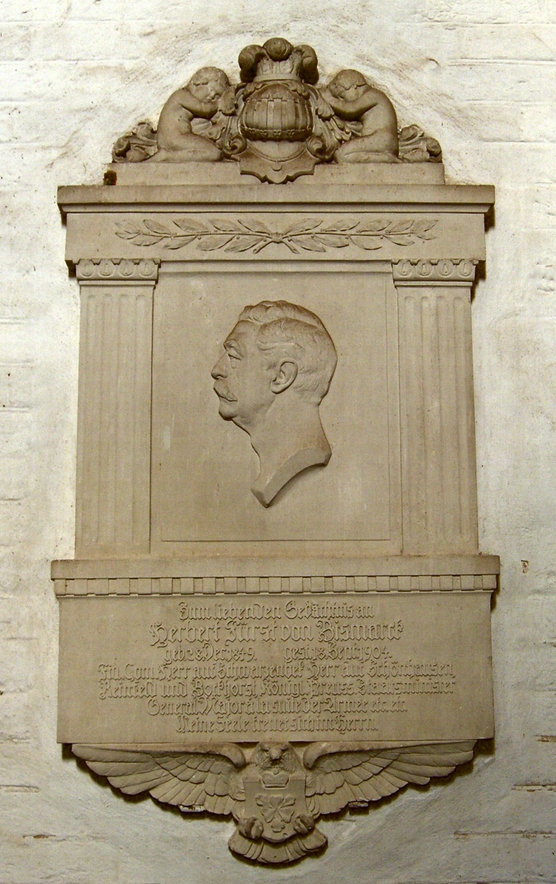 Schönhausen (Elbe) - Epitaph Herbert von Bismarck (sculpted by Wilhelm Wandschneider